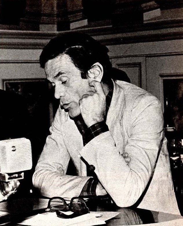 Italian writer and director Pier Paolo Pasolini